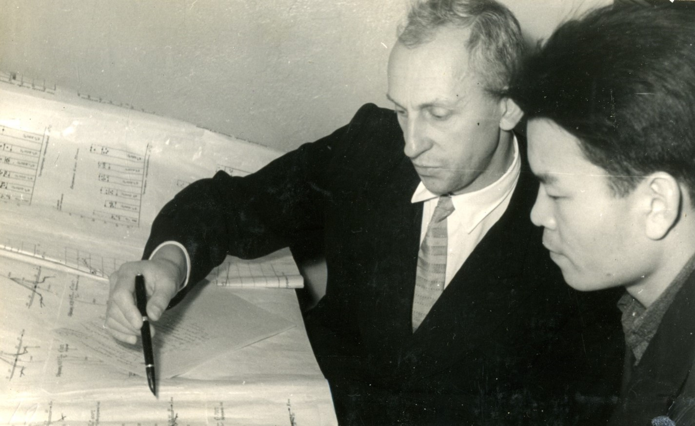 Kurkin_SA